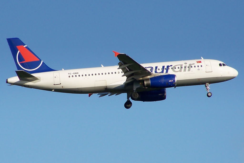 TC-OBE A320 Onur Air landing Glasgow